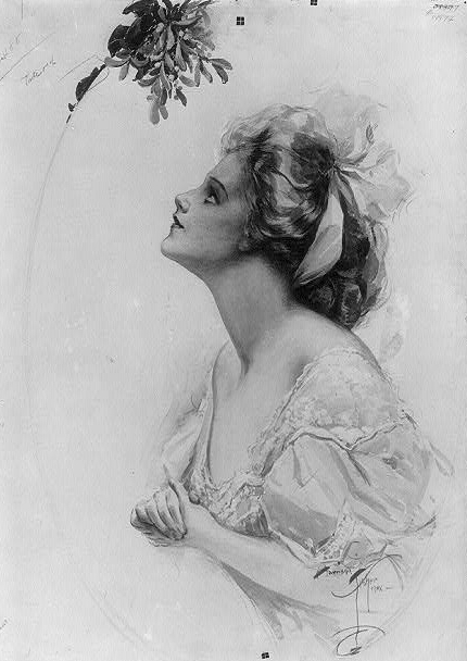 "Anticipation" by American illustrator Harrison Fisher (1875-1934)